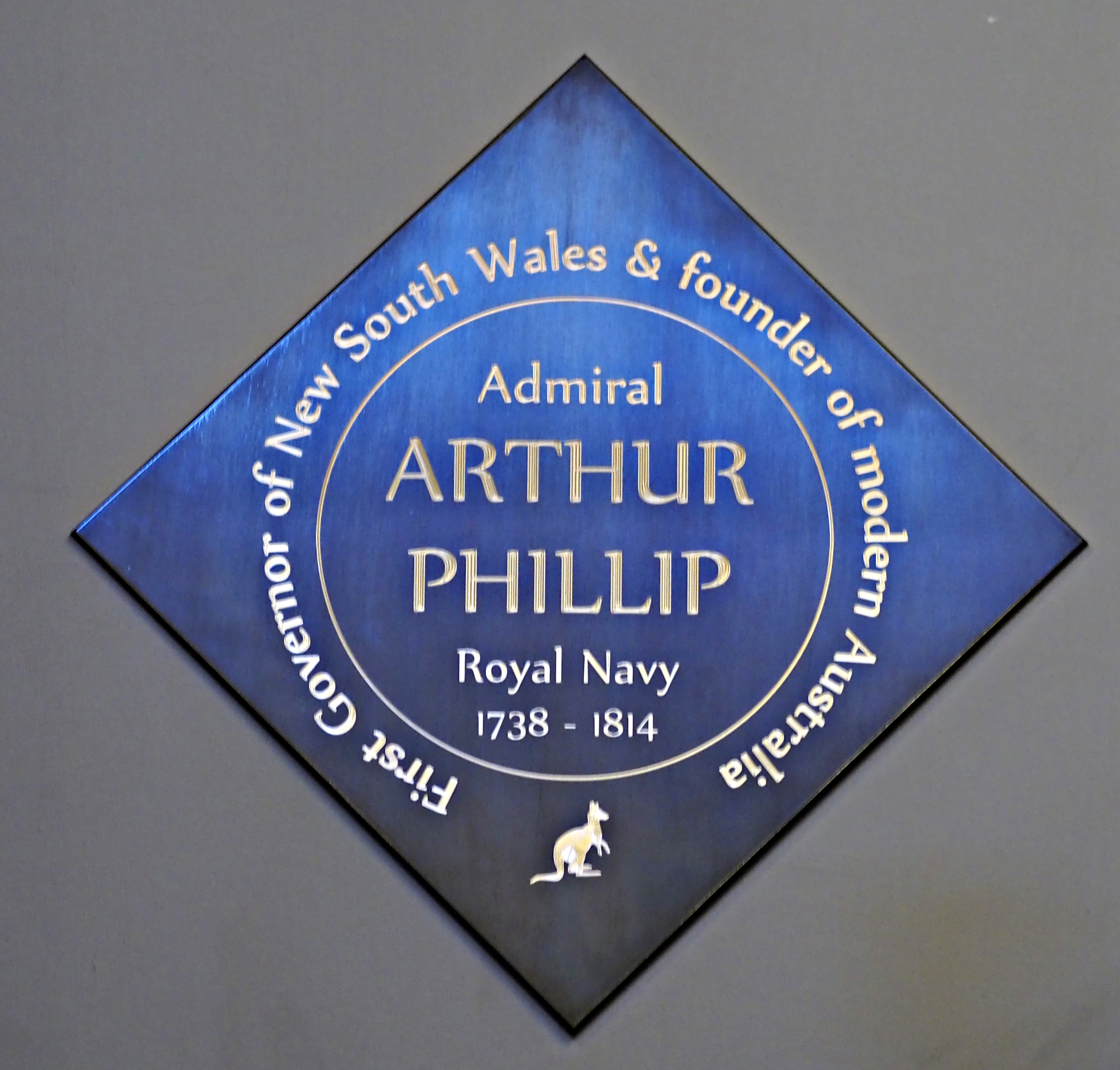 Memorial plaque to Governor Arthur Phillip St. James' Church Sydney